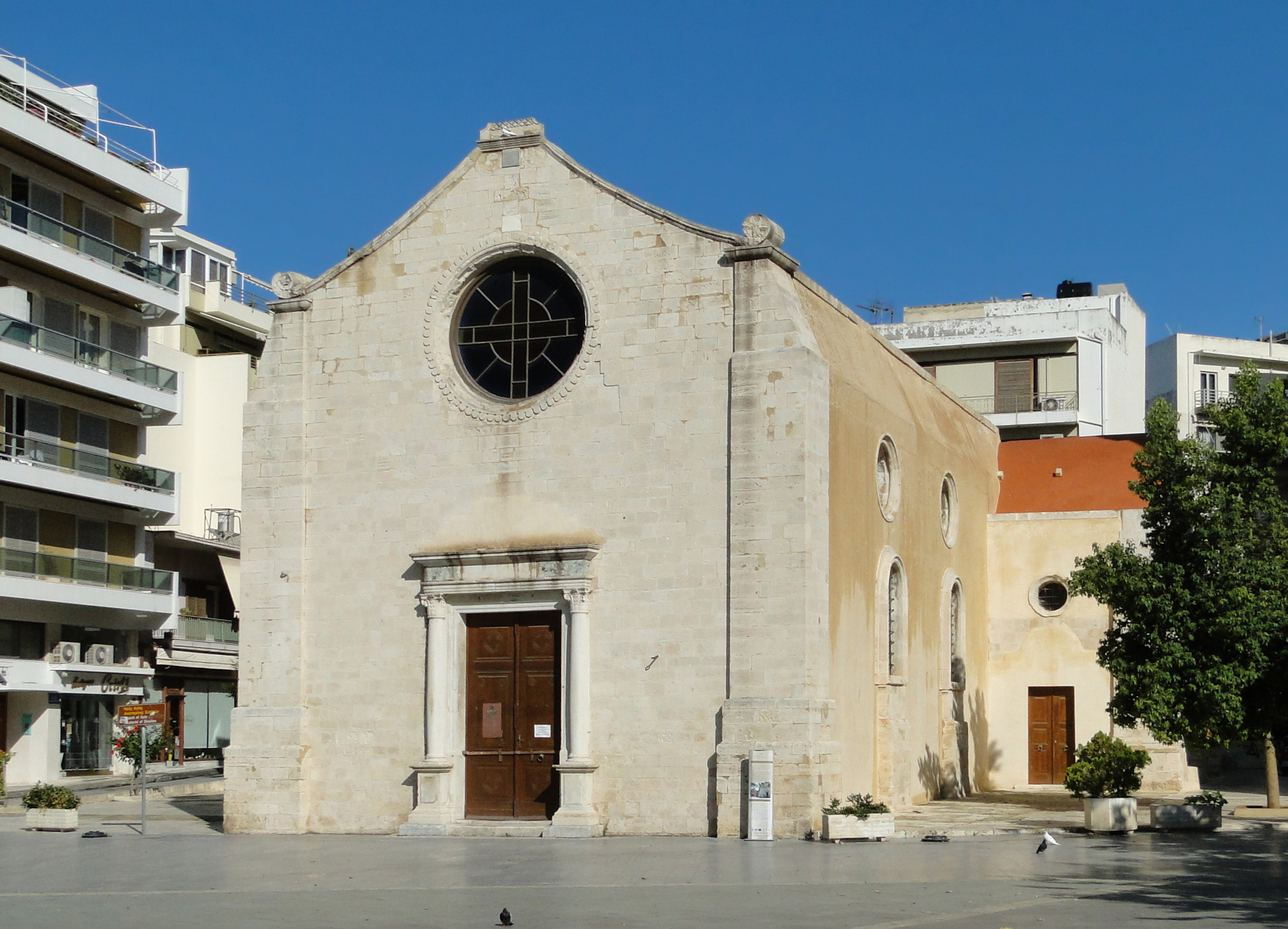 Agia Ekaterini (Saint Catherine) Church, Heraklion, Crete, Greece